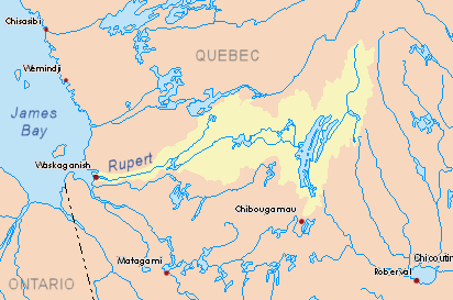 Original drainage basin of the Rupert River, Quebec, Canada. For diverted basin since 2010, see: File:Rupert map_2.png